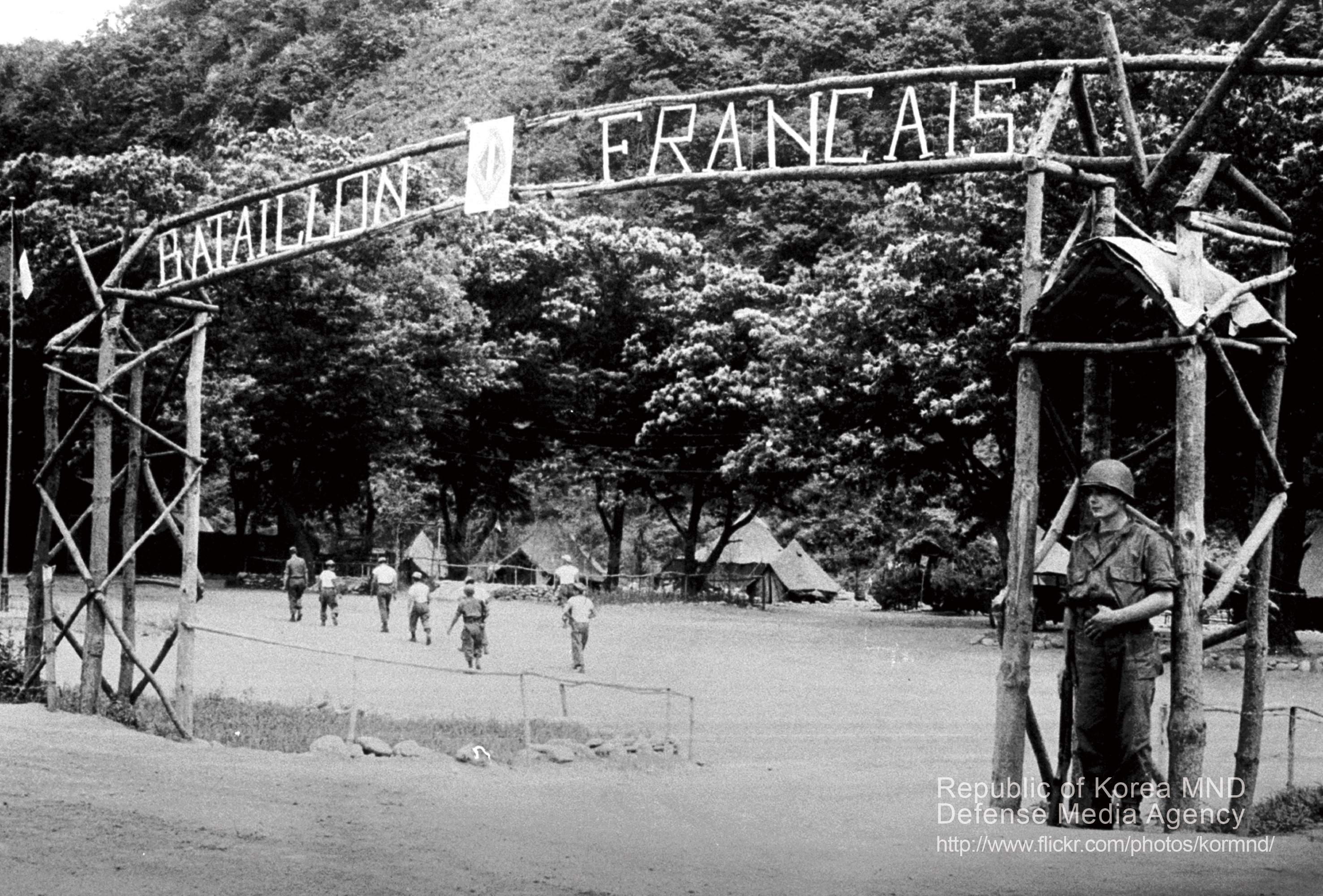 2010 국방화보 Rep. of Korea, Defense Photo Magazine 프랑스군 장병들이 주둔하고 있는 막사 입구. Barracks of French soldiers.